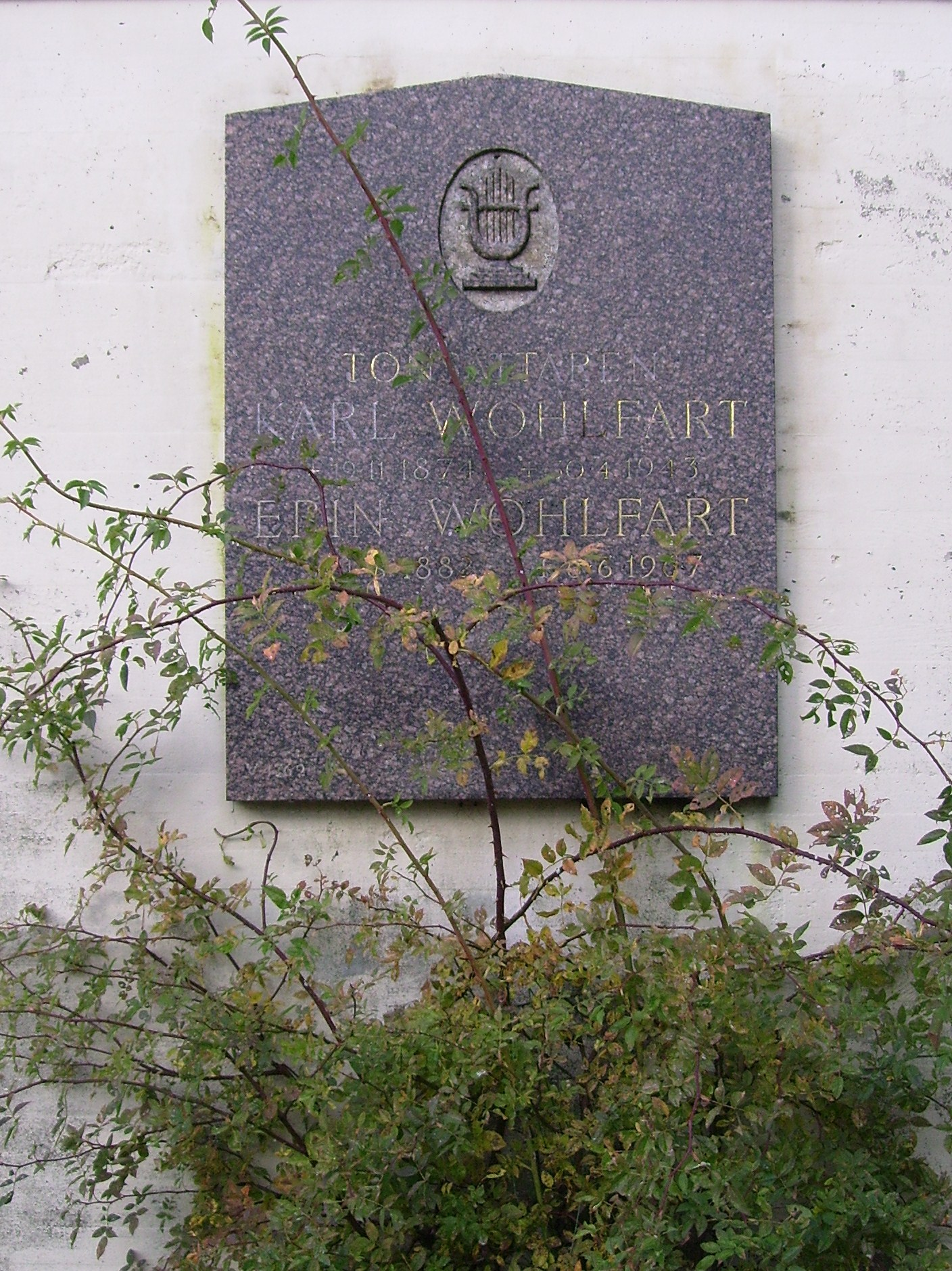 Picture of Karl Wohlfart's grave at Skogskyrkogården in Stockholm